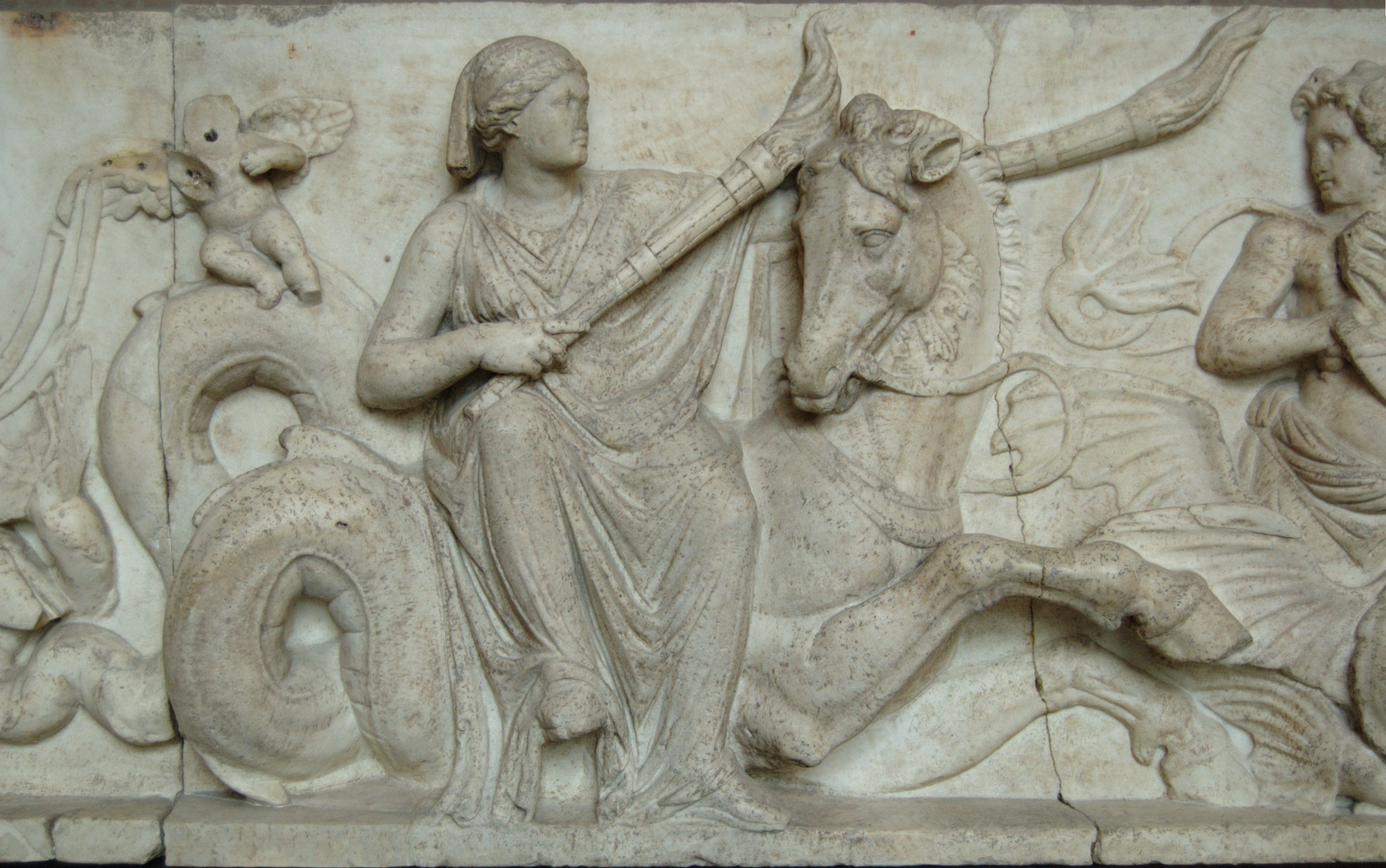 So-called “Altar of Domitius Ahenobarbus” or “Statue Base of Marcus Antonius”, relief freize of a monumental statue group base. Sea thiasos for the wedding of Poseidon and Amphitrite, 2nd half of the 2nd century BC. Detail: Doris, mother of Amphitrite, carrying two torches to light the procession; Erotes (front panel).